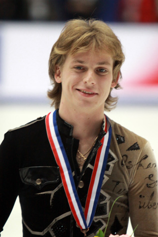 Sergei Voronov (3rd) at the men's Podium at 2009 Cup of China.